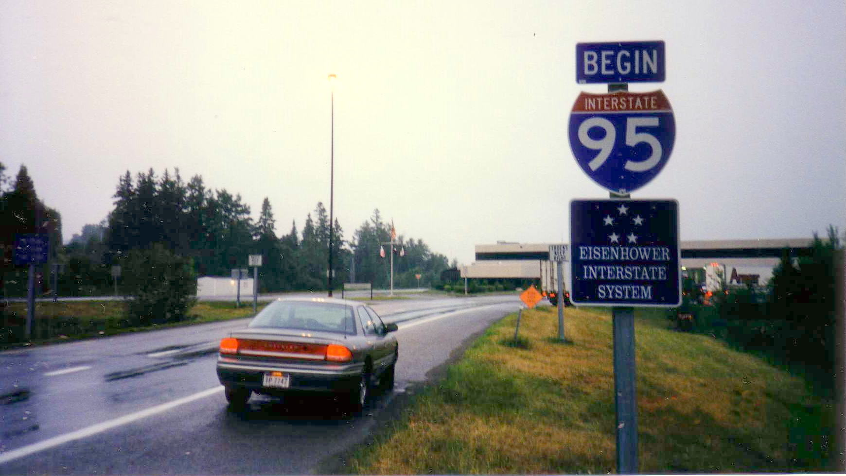 Interstate 95 begins - south bound sign at the border between Canada and the United States (near Houlton, Maine).